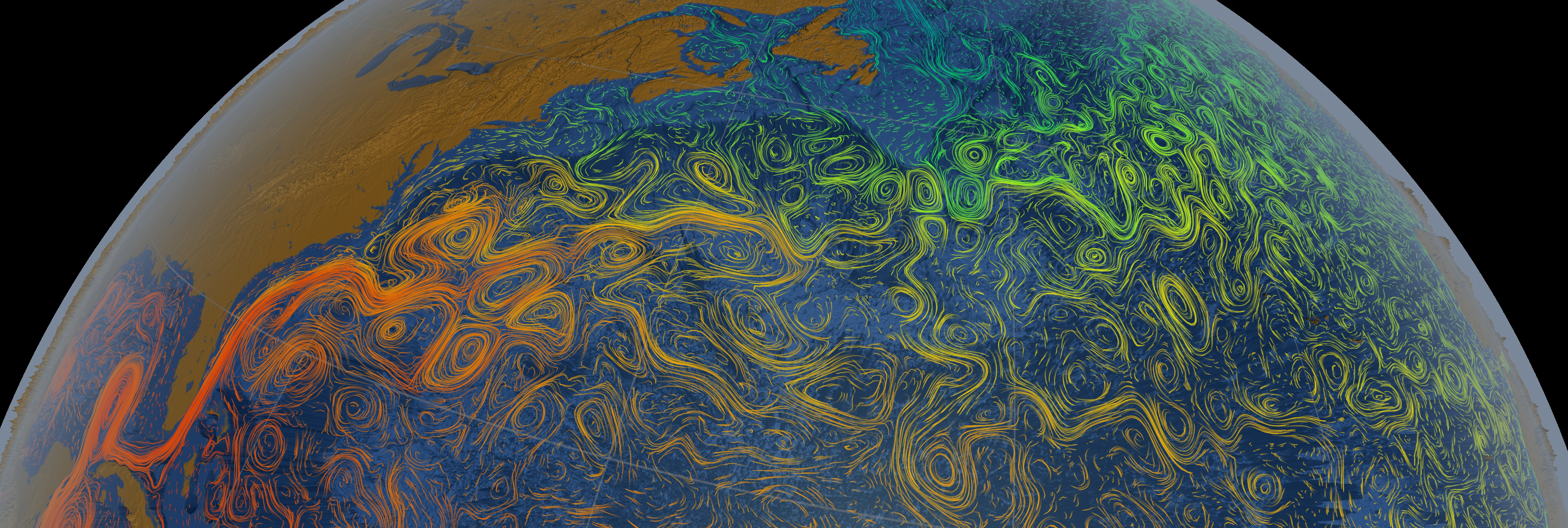 Visualisation of the Gulf Stream stretching from the Gulf of Mexico to Western Europe.